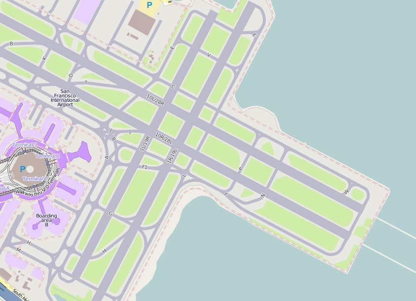 Map of the San Francisco International Airport used to depict the Asiana Airlines Flight 214 crash